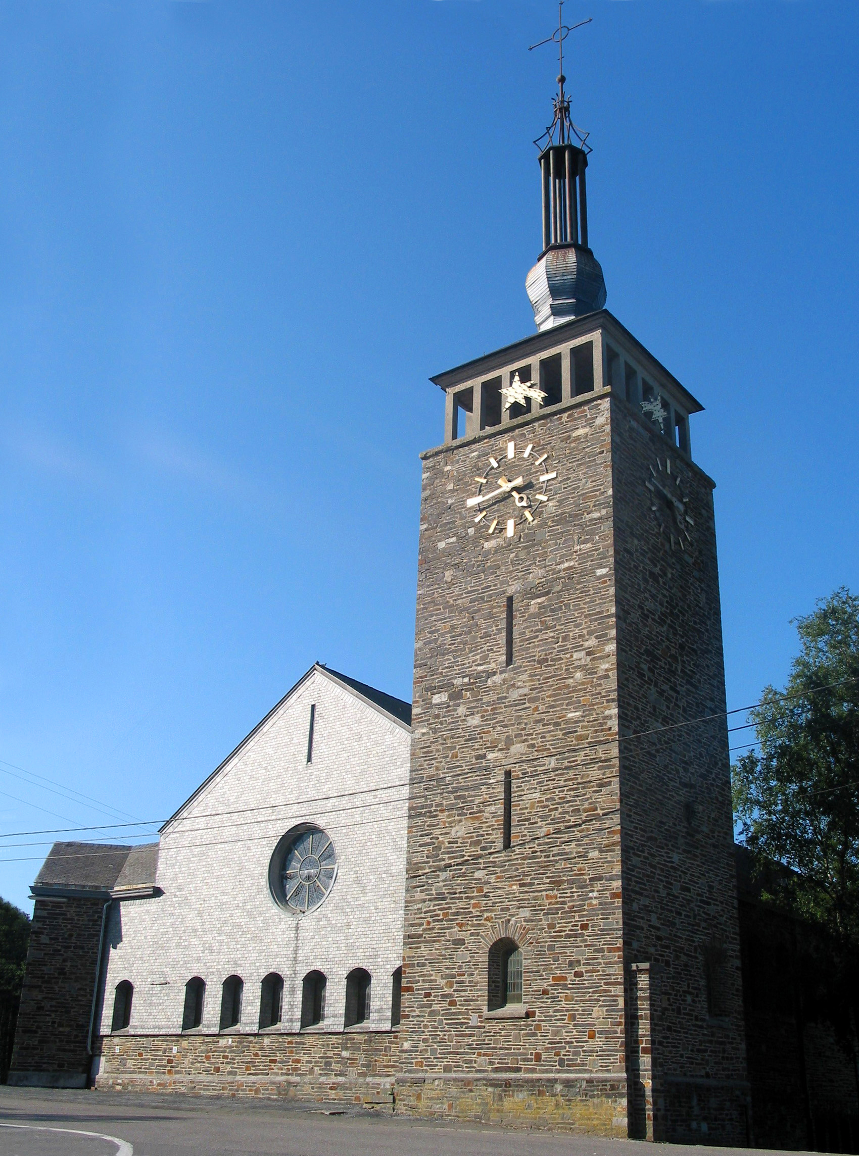 Tenneville (Belgium), the Notre-Dame de Bauraing church (1957).